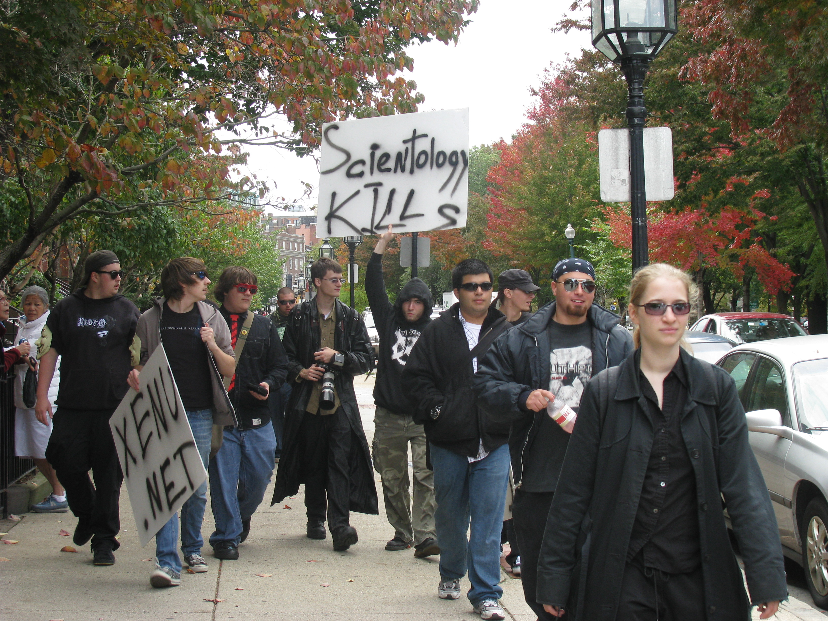 Members of Project Chanology from Boston and New York marching at a Boston Chanology protest